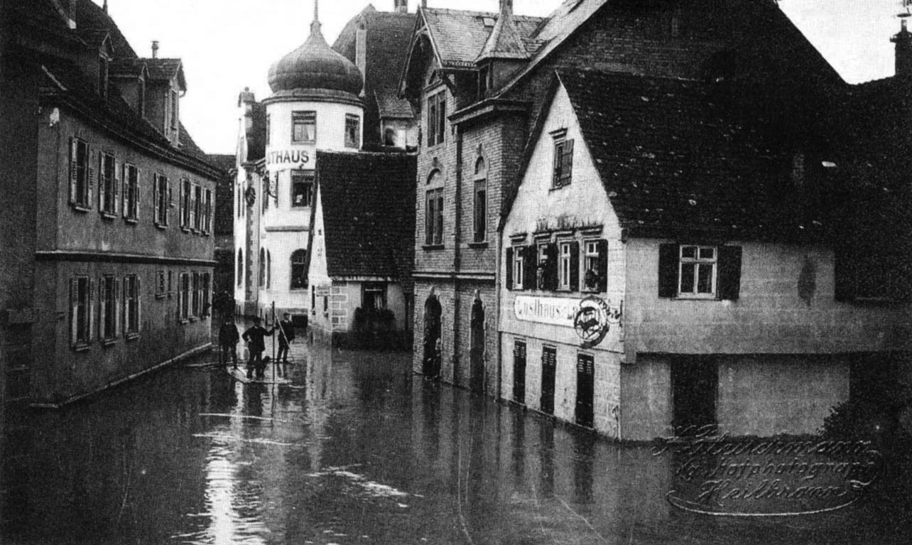 s